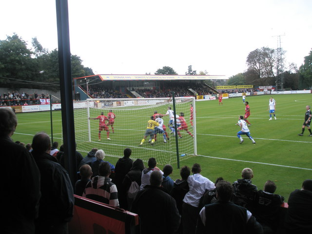 Spot the ball All the Football Saturday Night "Pinks" used to have this in. Somehow it seems as much a part of a by gone age as rattles or rosettes. Taken during a Coca-Cola League Two match between Aldershot and Bury.